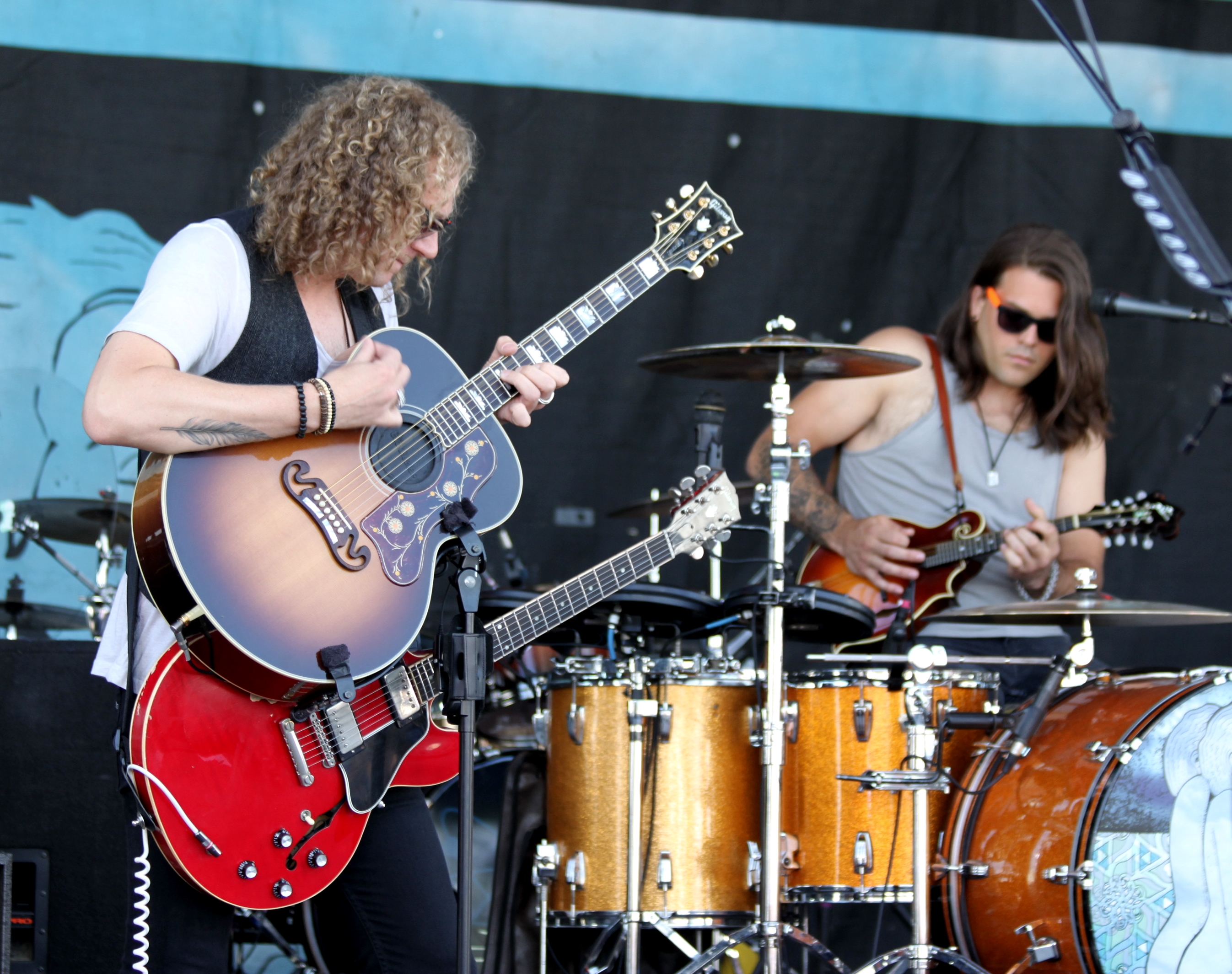 Phillip Vilenski on guitar and Nigel Dupree on drums